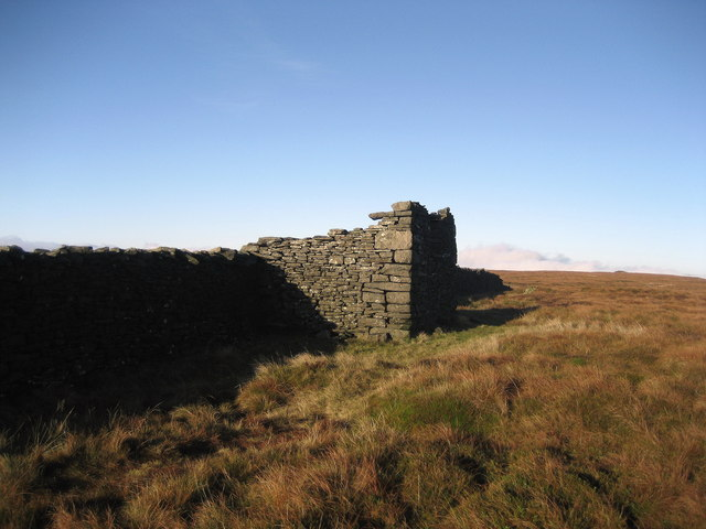 Ruin on Birks Fell There is always someone taking advantage of this building for a snack - I have never seen it unoccupied. It lies on top of a superb broad ridge at a constant 2000 ft, that separates Wharfedale from Littondale.